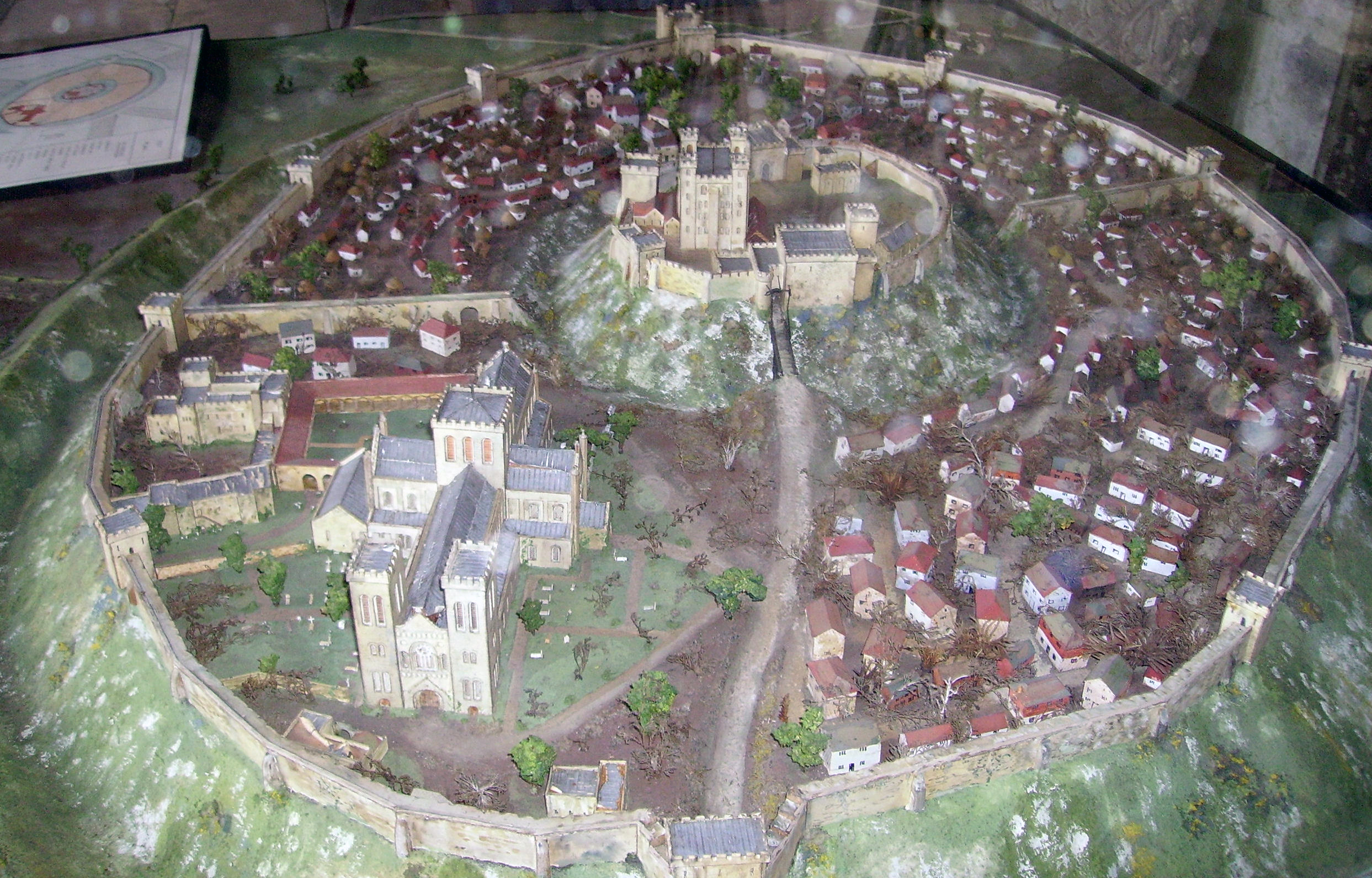 Model of Old Sarum, including its castle and old cathedral, as it would have appeared in the late 12th century. The model is located at the Salisbury Cathedral, United Kingdom.